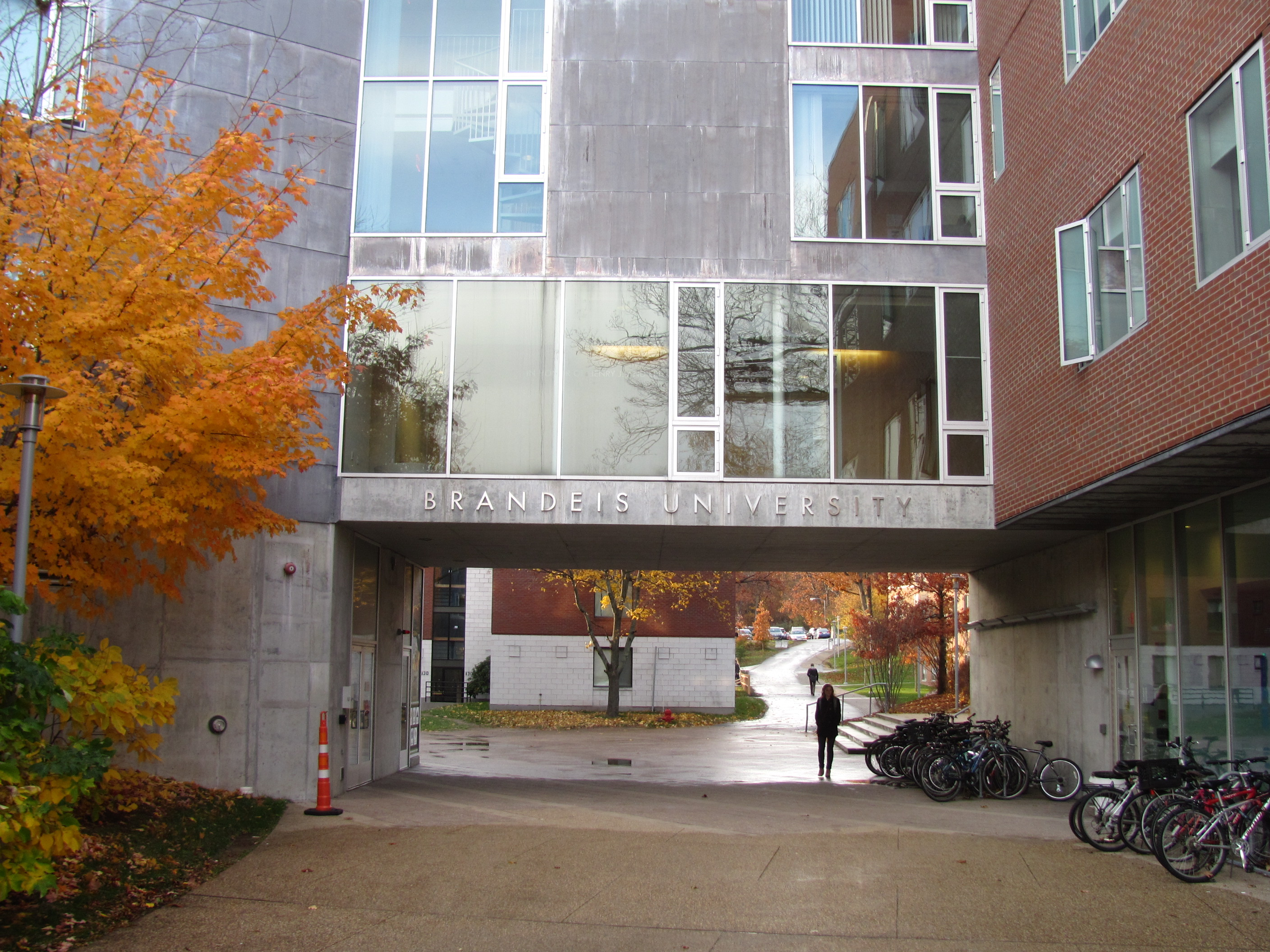 Village Residence Hall, Brandeis University, Waltham Massachusetts